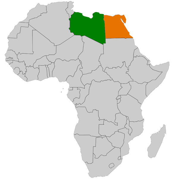 Detailed SVG map with grouping enabled to connect all non-contiguous parts of a country's territory for easy colouring. Smaller countries can also be represented by larger circles to show their data easier. A thorough description of use and other instructions relating to can be found on the instruction page. iThe source code of this SVG is valid.